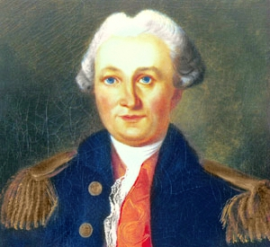 French explorer and naval officer